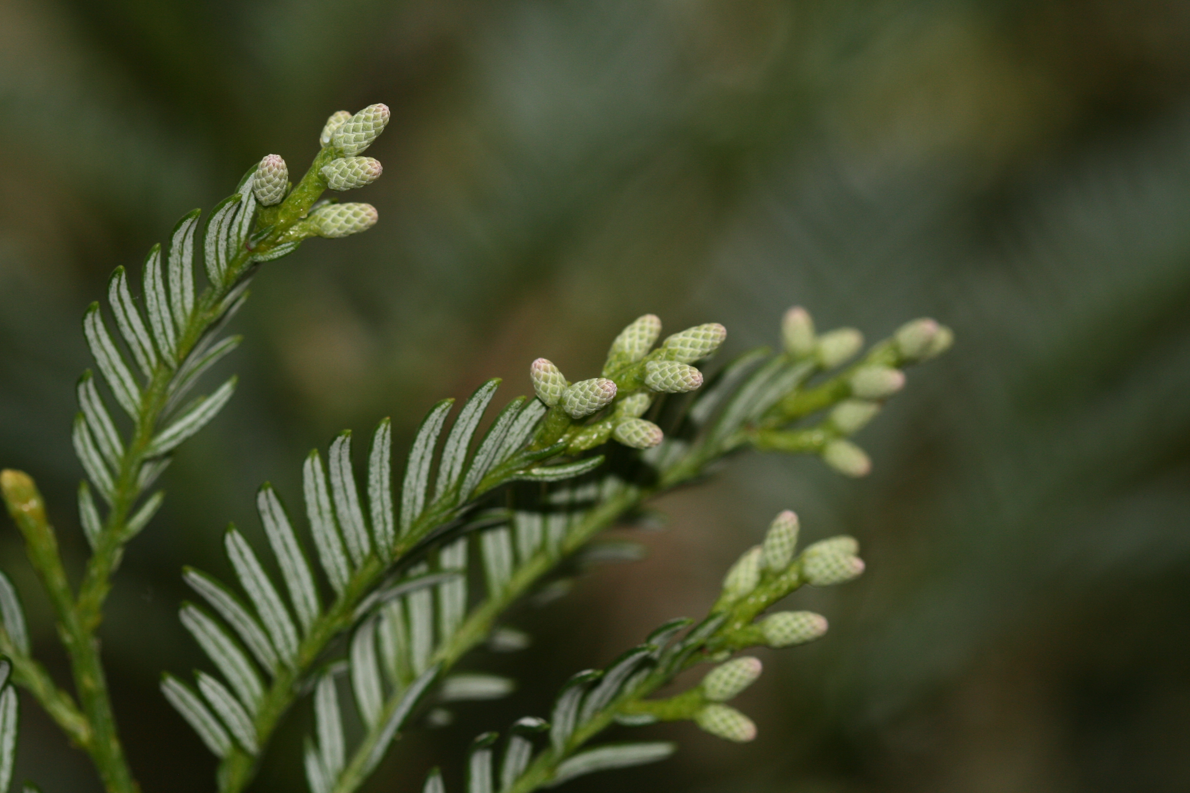 Conifer found only on the island of New Caledonia. Royal Botanic Gardens, Edinburgh, Scotland